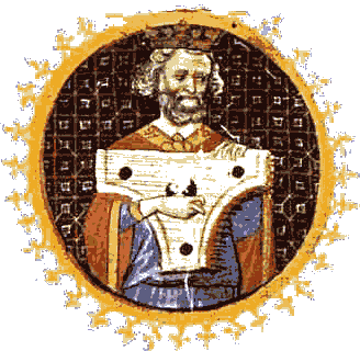 Psaltery: The picture shows a Psaltery of the 14th century from the book: De Arythmetica, De Musica by M. Servinius Boetius. The picture shows how the instrument is typically held: before the chest with the hands under the curves Source: [1] Category:Illuminated manuscript images